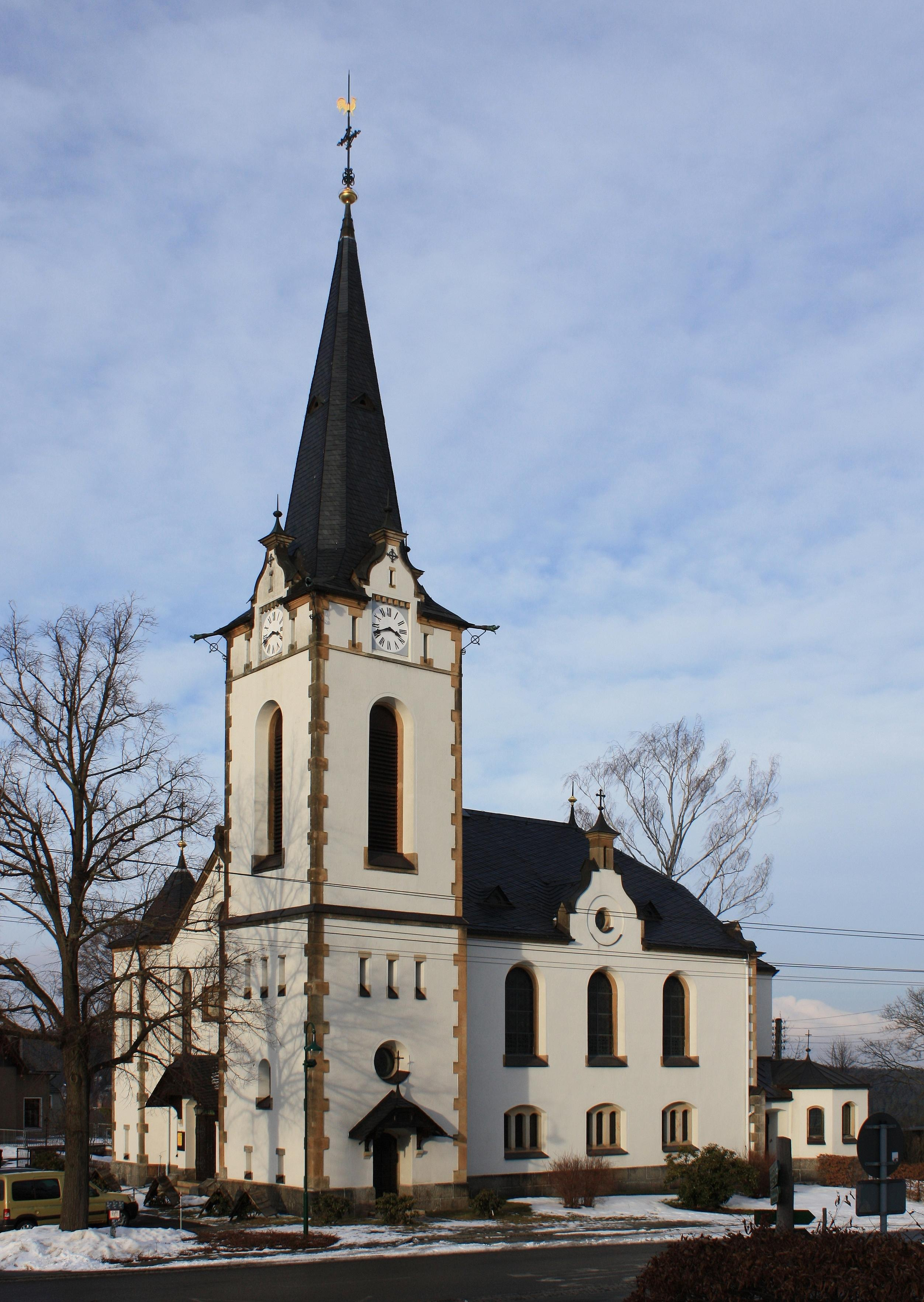 Albernau church